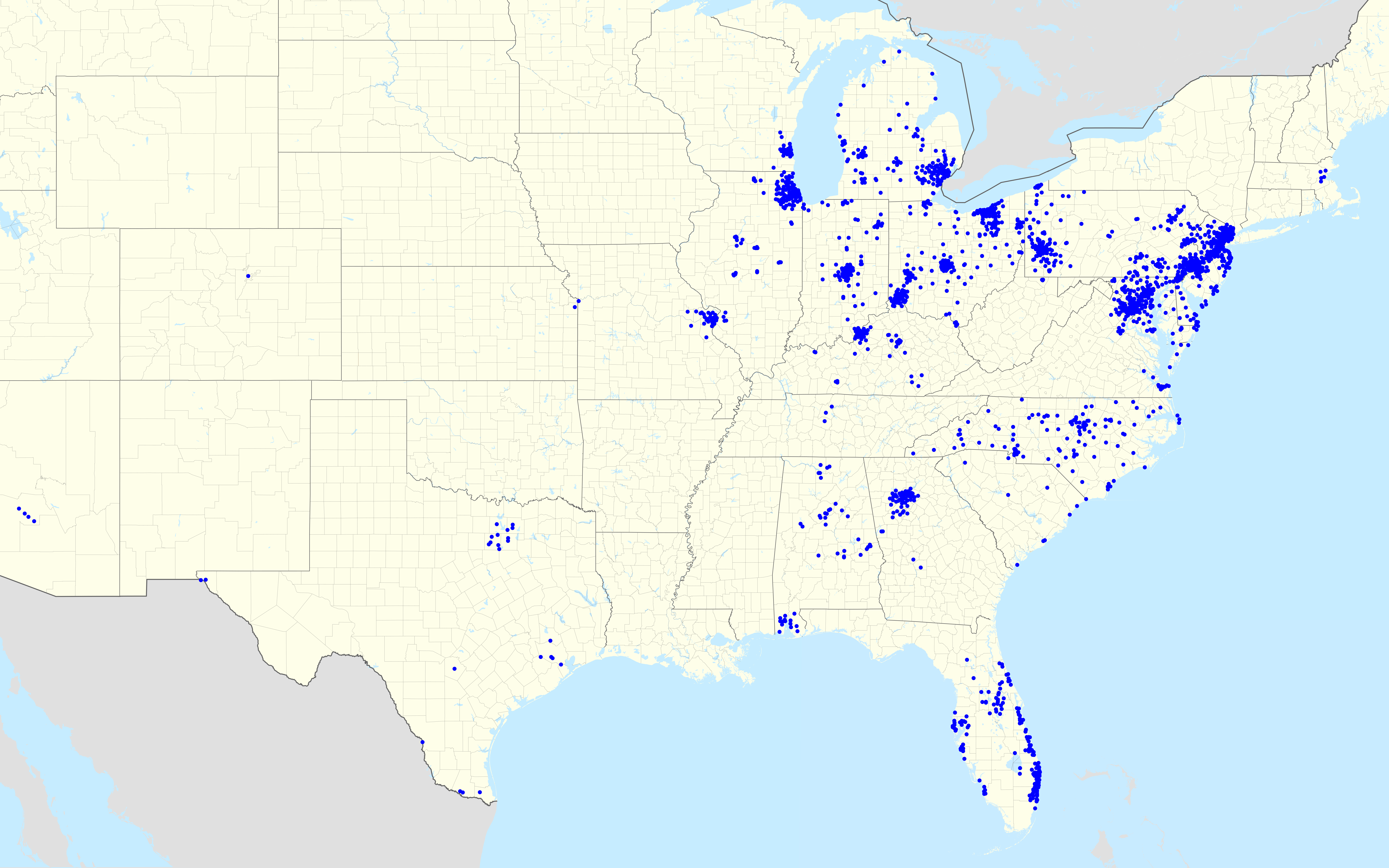 Footprint of PNC Bank, according to the FDIC, as of 16 April 2015.